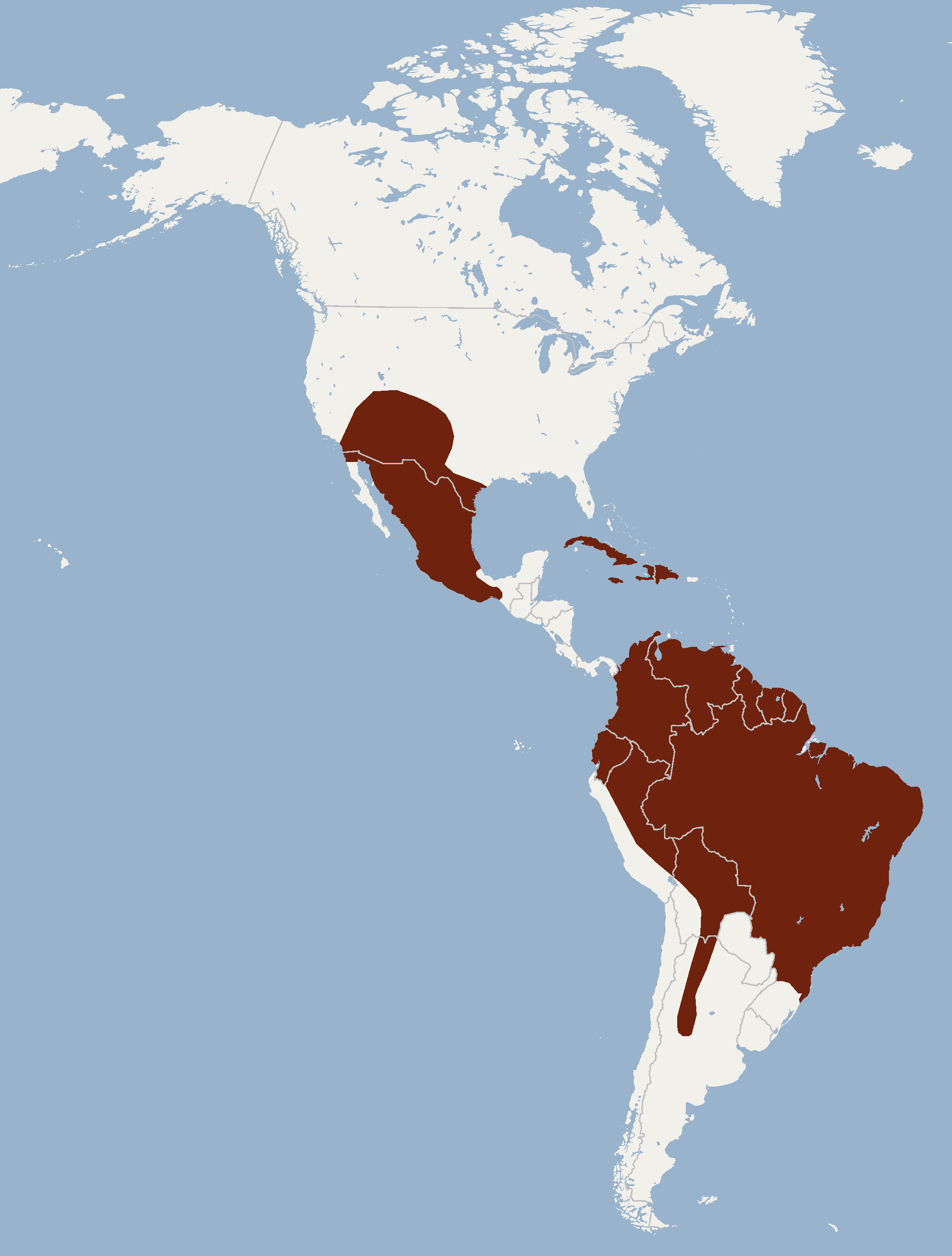 Geographical distribution of Nyctinomops macrotis according to